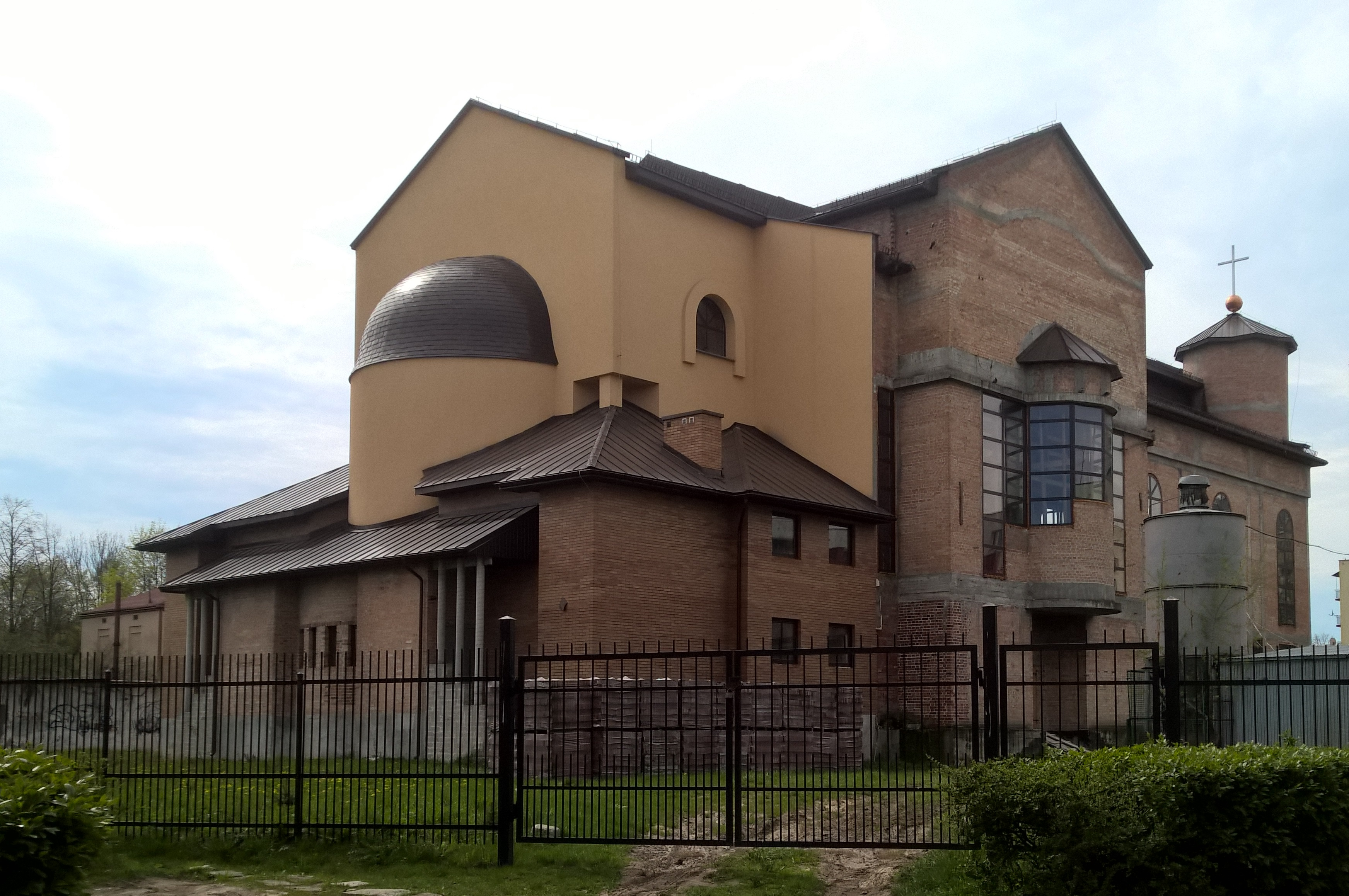 Church of Kielce